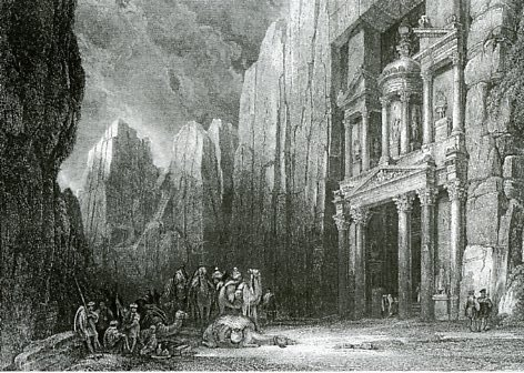 Ruins of Selah (Petra). Temple Excavated out of the Rock. Engraving. After David Roberts, from a sketch from Léon de Laborde, engraving by Edward Finden.